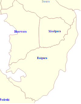 r